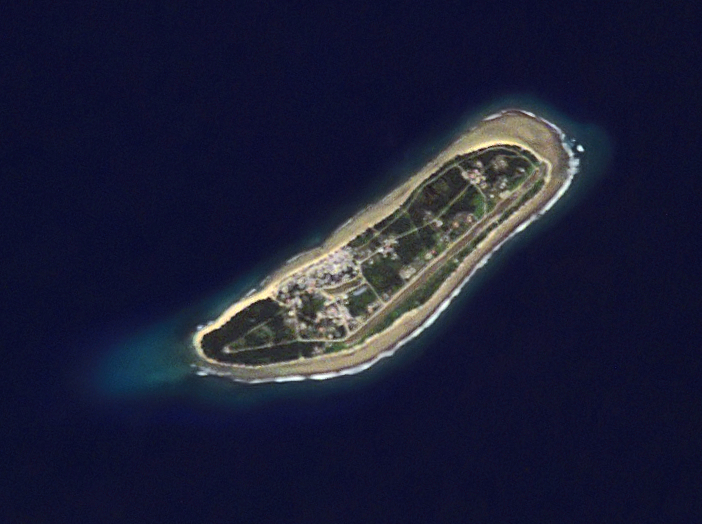 NASA Astronaut Photography of Kili Island, Marshall Islands Mission: ISS002 Roll: E Frame: 6656 Mission ID on the Film or image: ISS002 Image Science and Analysis Laboratory, NASA-Johnson Space Center. "The Gateway to Astronaut Photography of Earth." 09/24/2012 04:46:02 Image courtesy of Image Science and Analysis Laboratory, NASA Johnson Space Center